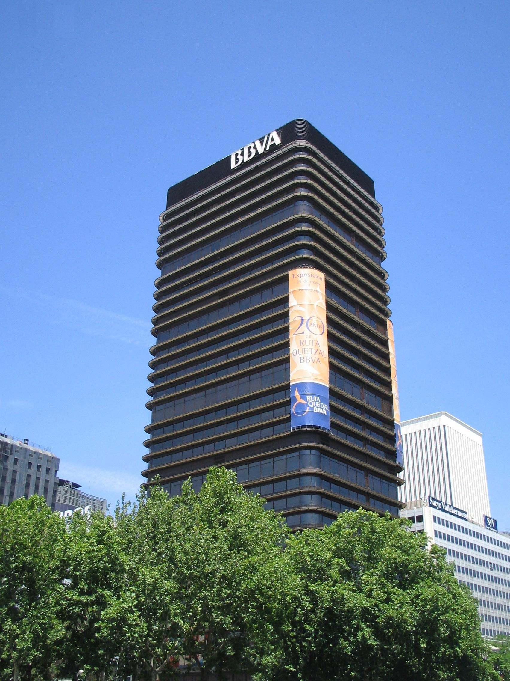 Torre BBVA in Madrid